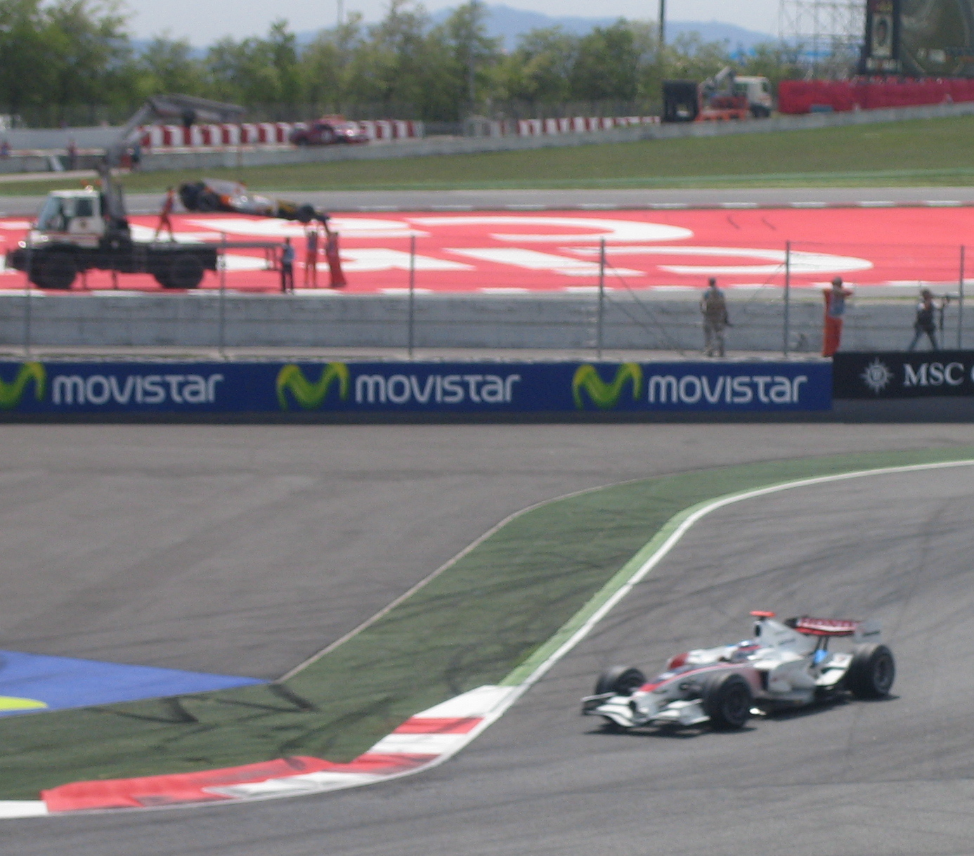 Sato qualified last and finished last but after a strong race with a damaged front nose in what would turn out to be the last Grand Prix ever for the Super Aguri team.